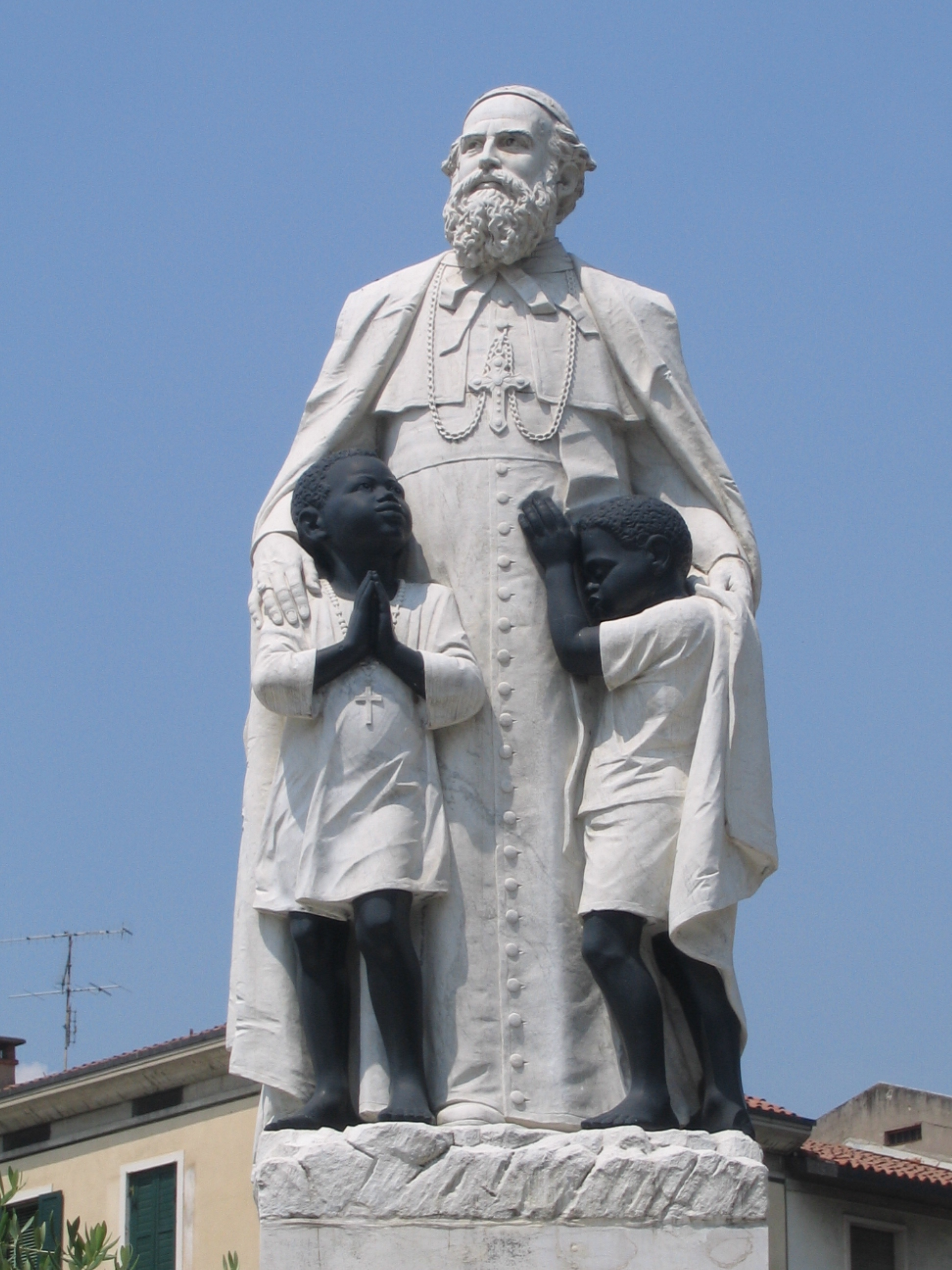 Statue of Daniel Comboni, italian bishop